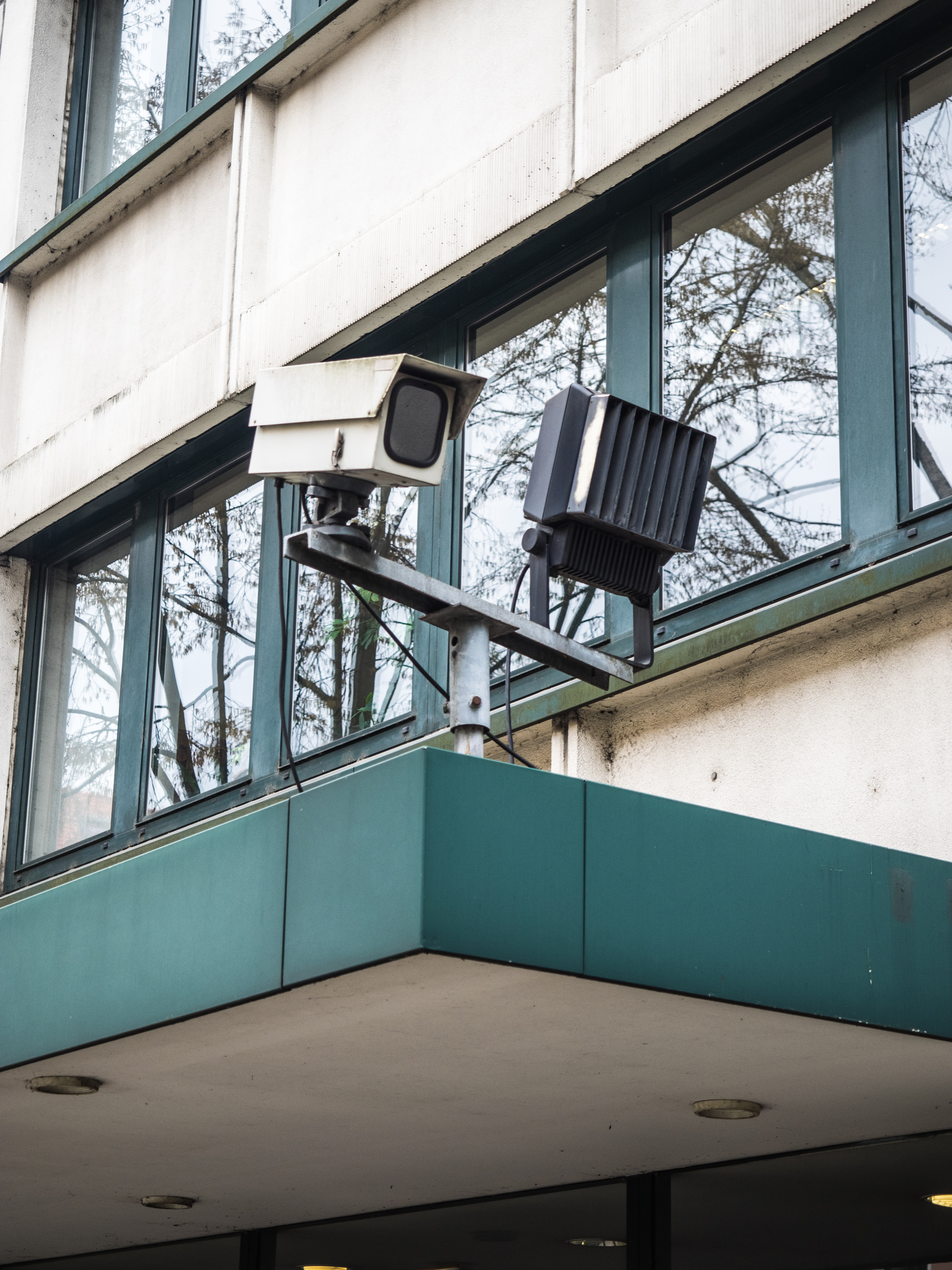 Vandalism proof CCTV system